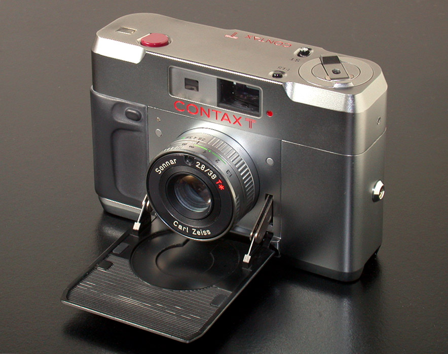 Contax T